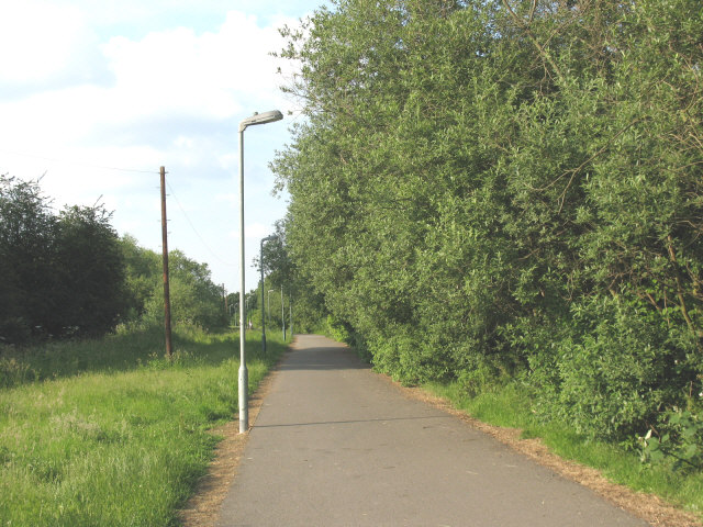 Waterlink Way at Bellingham One of the most secluded sections of the Waterlink Way alongside the railway at Bellingham. Although it is lit, I would not be confident walking/cycling along here after dark.